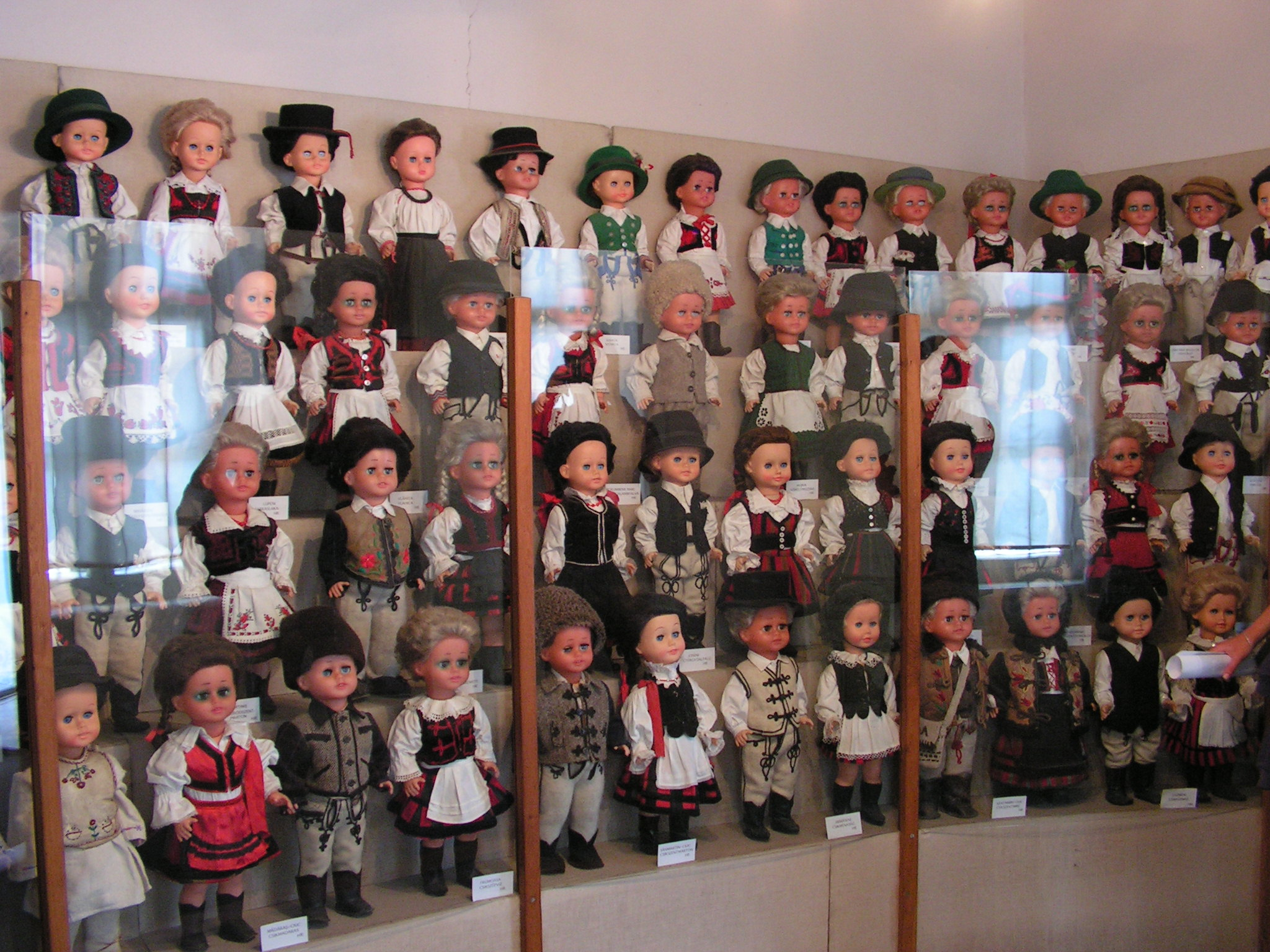 Children stand in front of a museum collection of puppets representing traditional Romanian clothing.